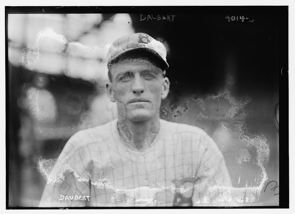 Bain News Service,, publisher. [Jake Daubert, Brooklyn NL (baseball)] 1916. 1 negative : glass ; 5 x 7 in. or smaller. Notes: Original data provided by the Bain News Service on the negatives or caption cards: Daubert, Bklyn, 1916. Corrected title based on research by the Pictorial History Committee, Society for American Baseball Research, 2006. Forms part of: George Grantham Bain Collection (Library of Congress). Format: Glass negatives. Repository: Library of Congress, Prints and Photographs Division, Washington, D.C. 20540 USA, General information about the Bain Collection is available at Higher resolution image is available (Persistent URL): Call Number: LC-B2- 4014-3